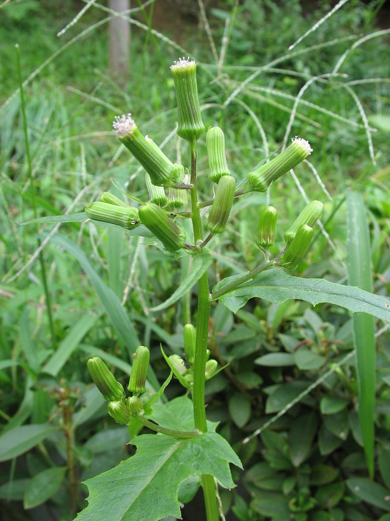 Photograph of Erechtites hieraciifolius, taken in Machida city, Tokyo, Japan.